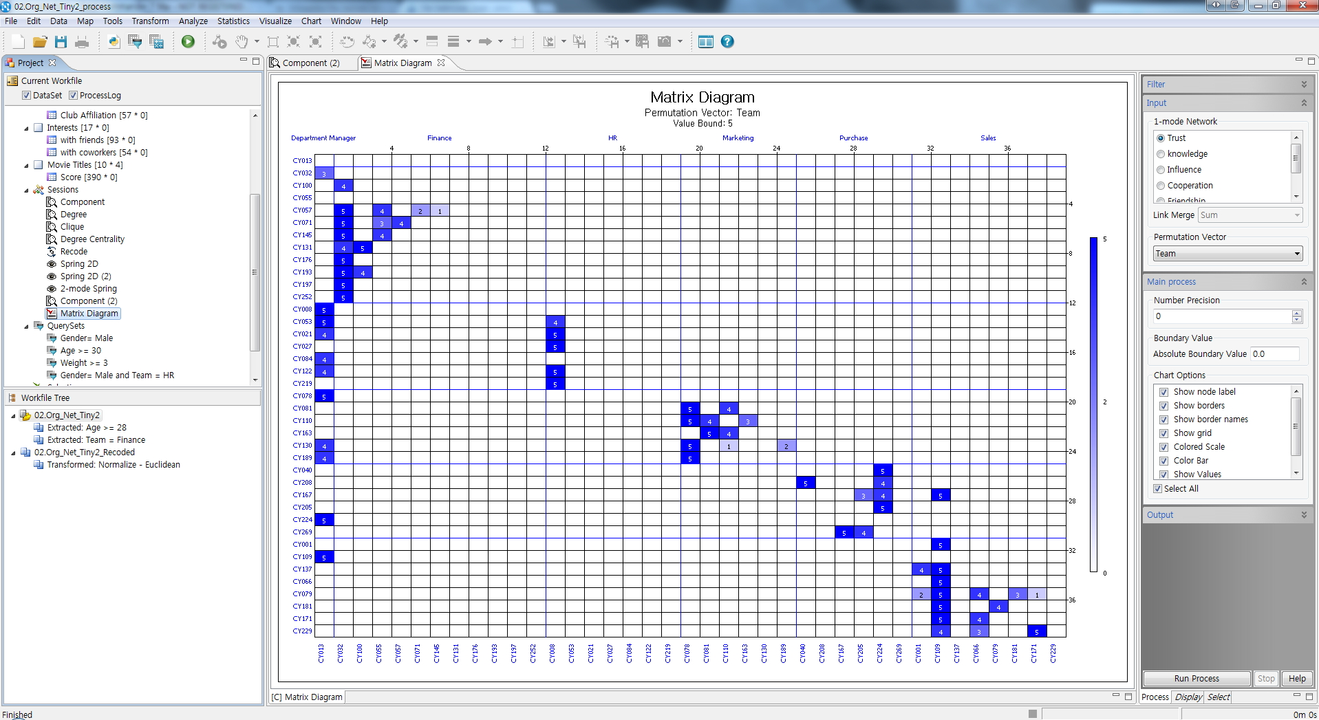 This image file is captured by Cyram Inc. who created the product netminer. This image file shows the main window of netminer.